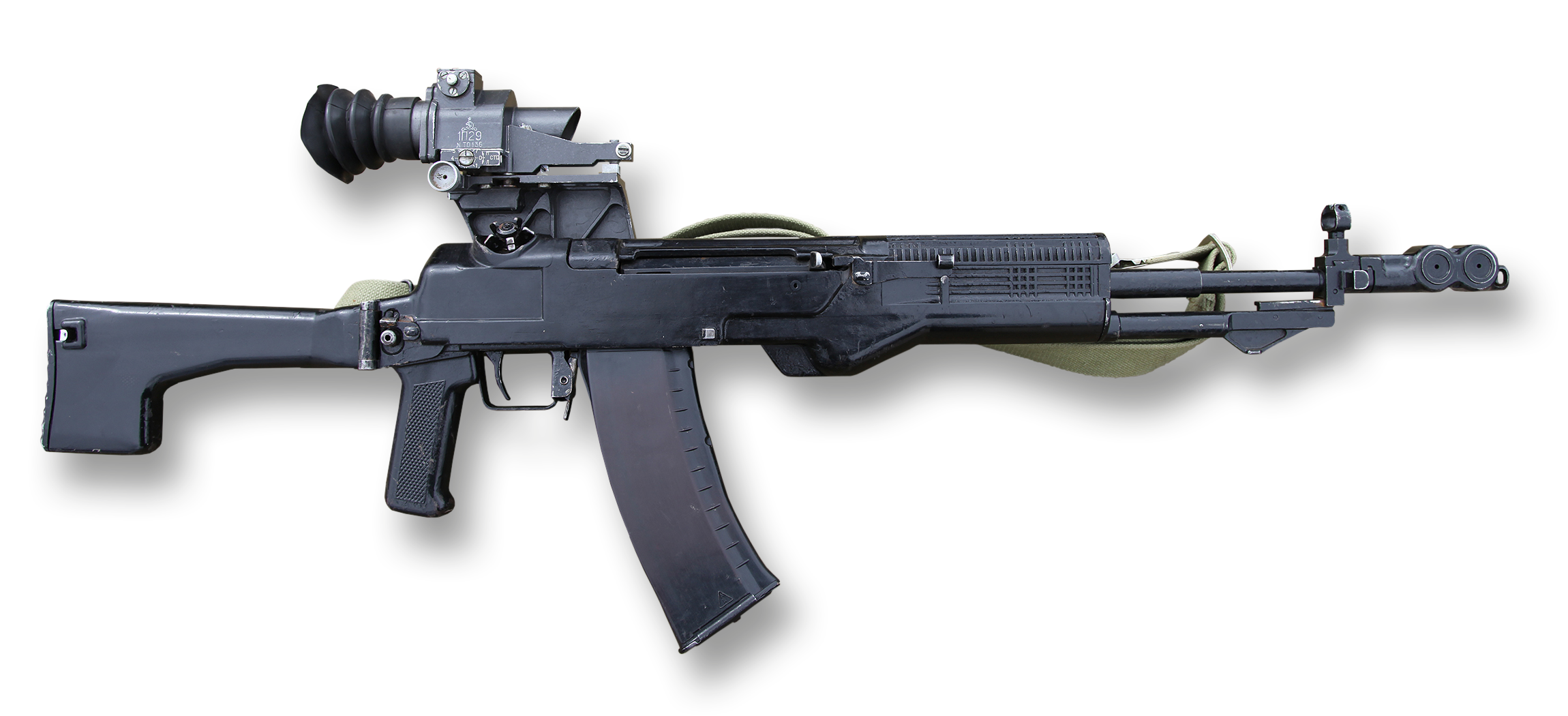 Prototype of AN-94 assault rifle, also known as LI-291 - Tank Biathlon-2014